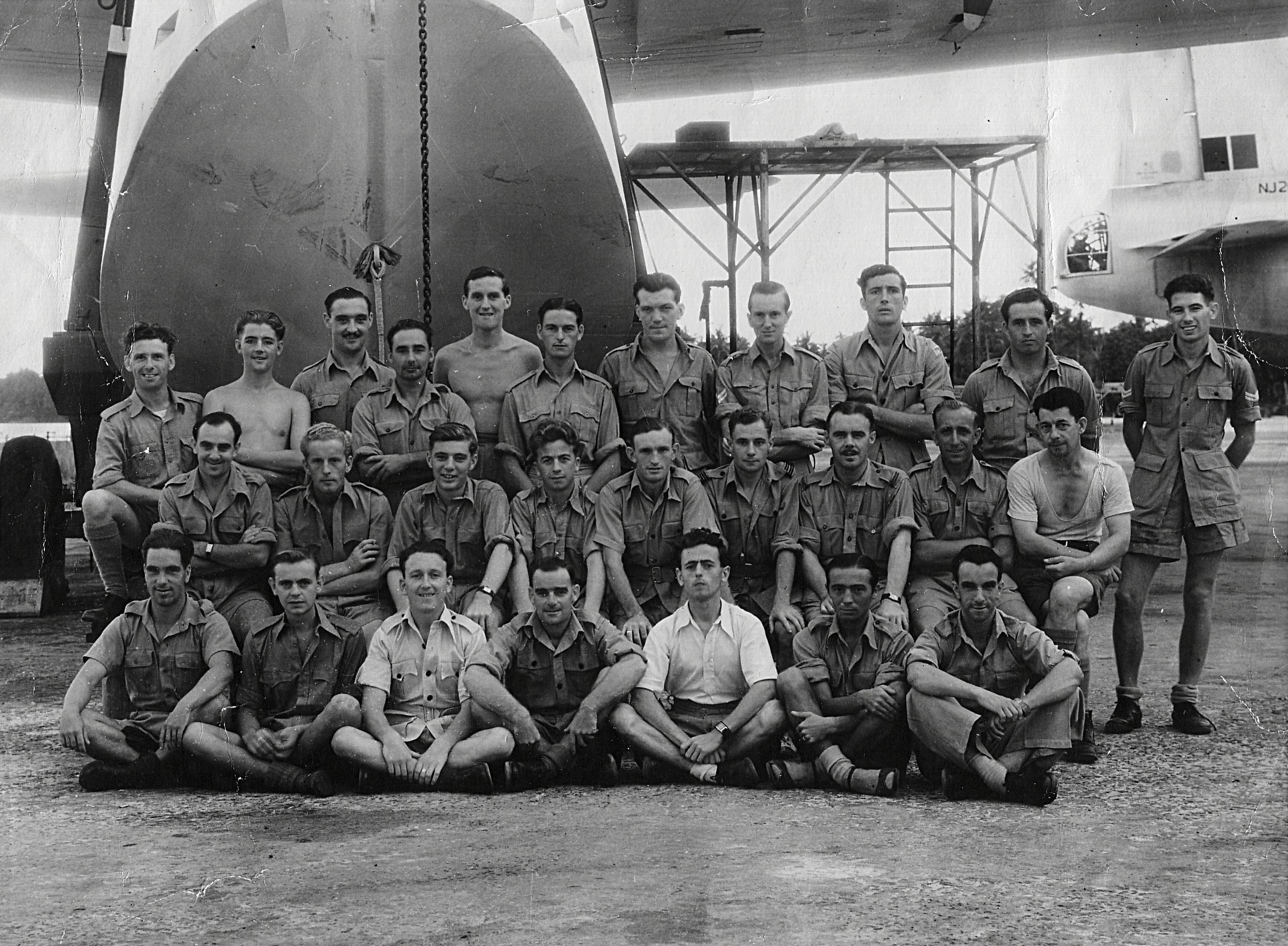 Royal Air Force mechanics at Royal Air Force Station RAF Koggala, Ceylon (now Sri Lanka)